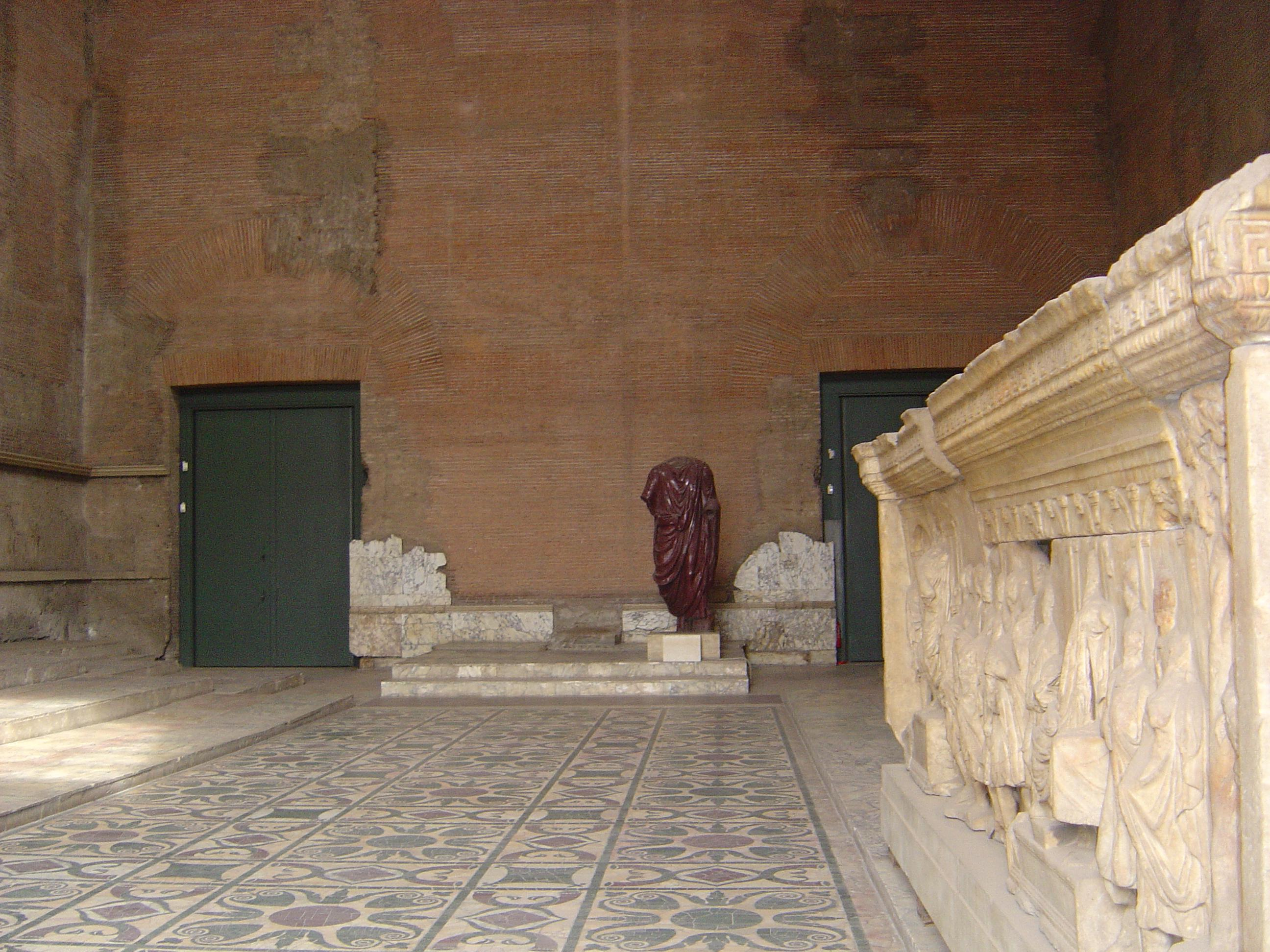 Curia (or Curia Julia), the Restored Senate House of Ancient Rome, in the Roman Forum, Rome, Italy.